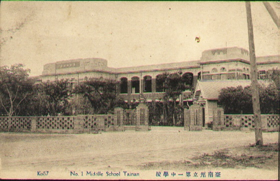 No.1 Middle School(current Second Senior High School), Tainan ,Taiwan